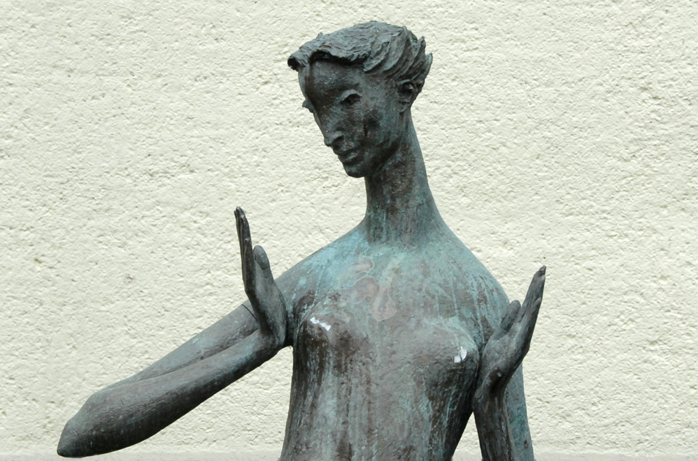 The statue outside Hornsey Library in Crouch End